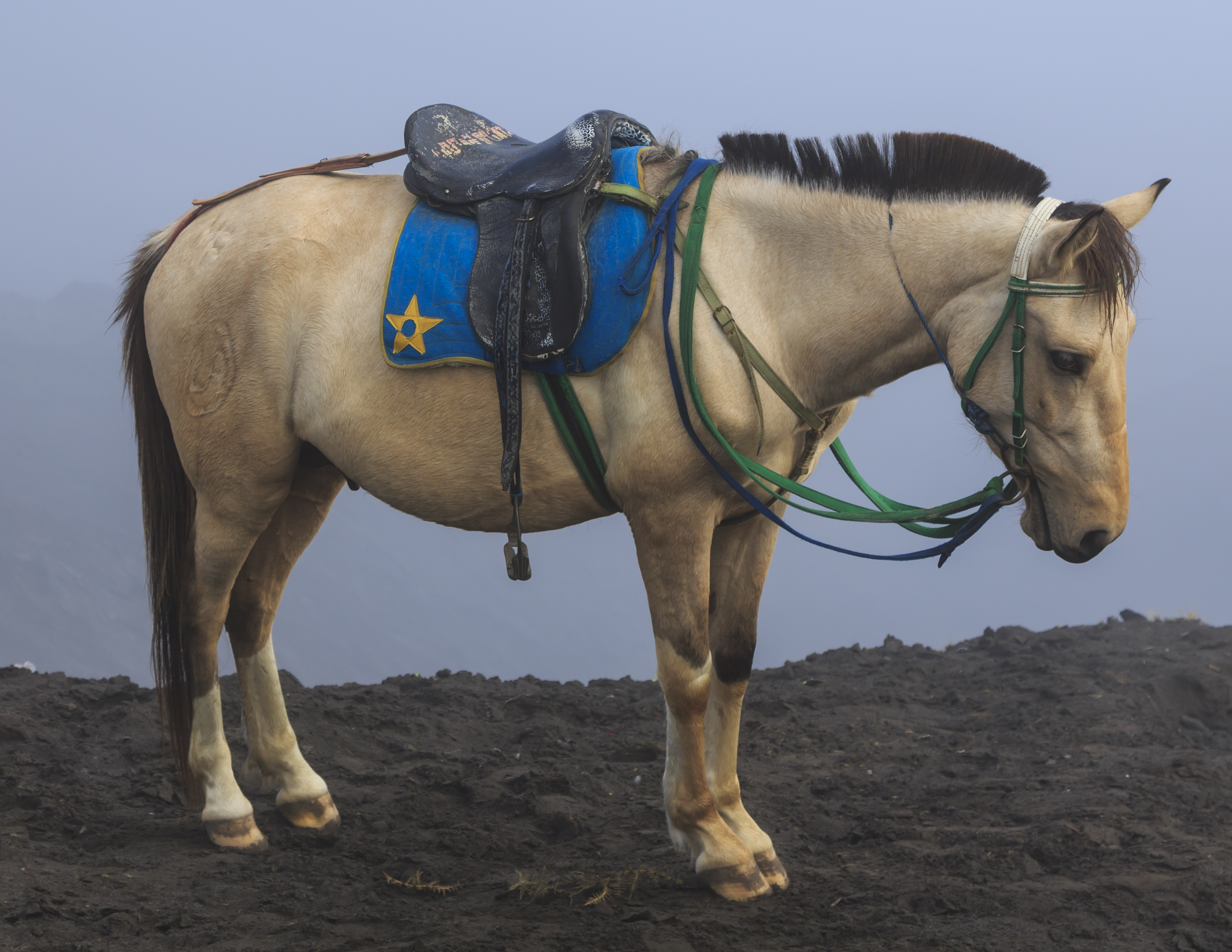 Bromo Tengger Semeru National Park, East Java, Indonesia: A Java Pony (Equus ferus caballus), resting at the 250 steps after bringing a customer from the jeep parking area to the volcano.